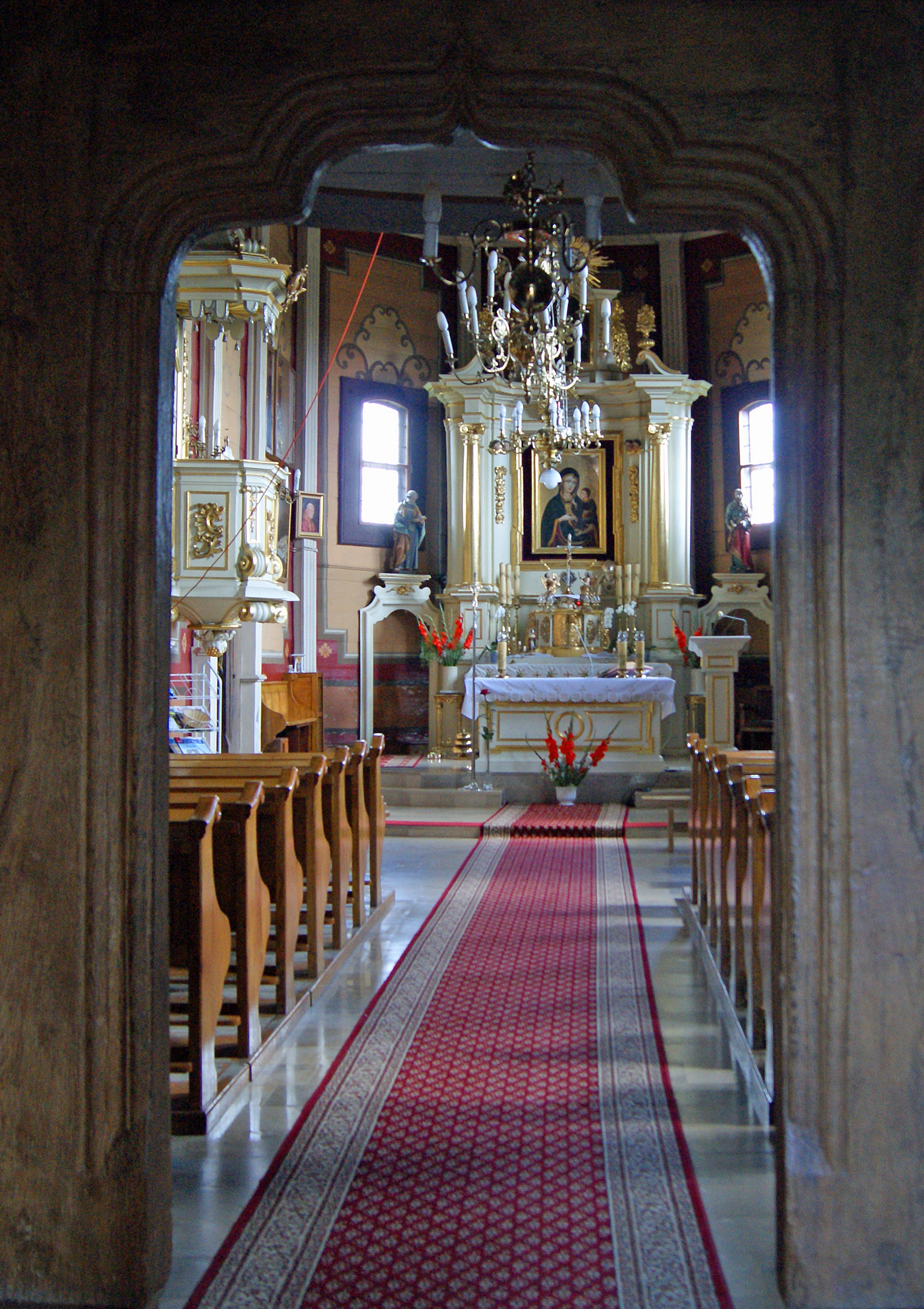 Church of Saint Nicholas of Myra, interior, 31 Czulice village, Kraków county, Poland